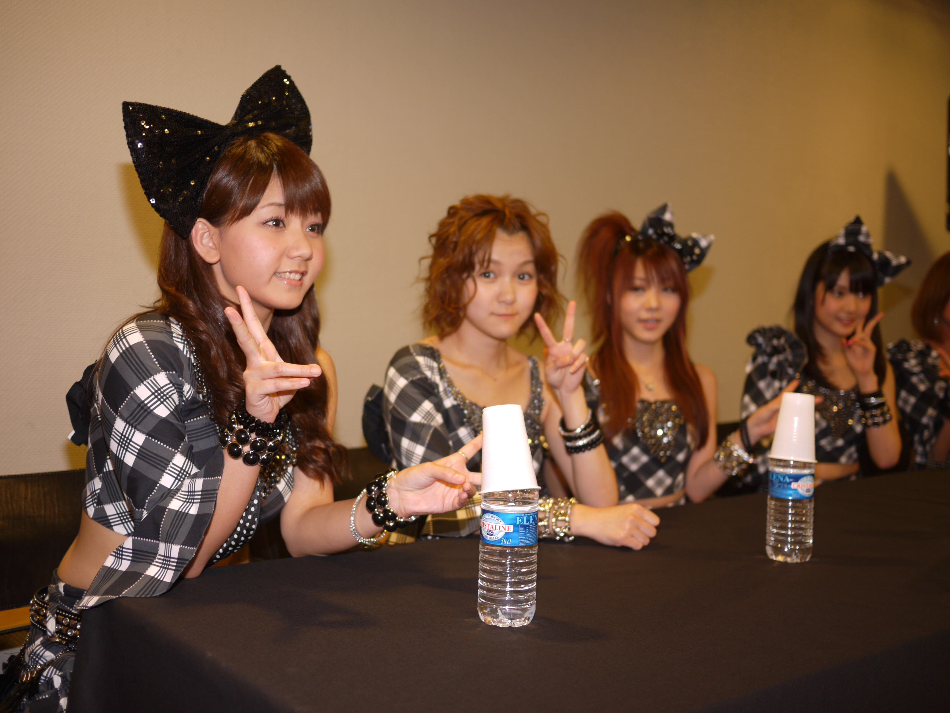 Japan Expo Festival, 11th impact